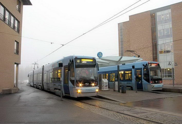 Two SL95 trams at Rikshospitalet of the Oslo Tramway